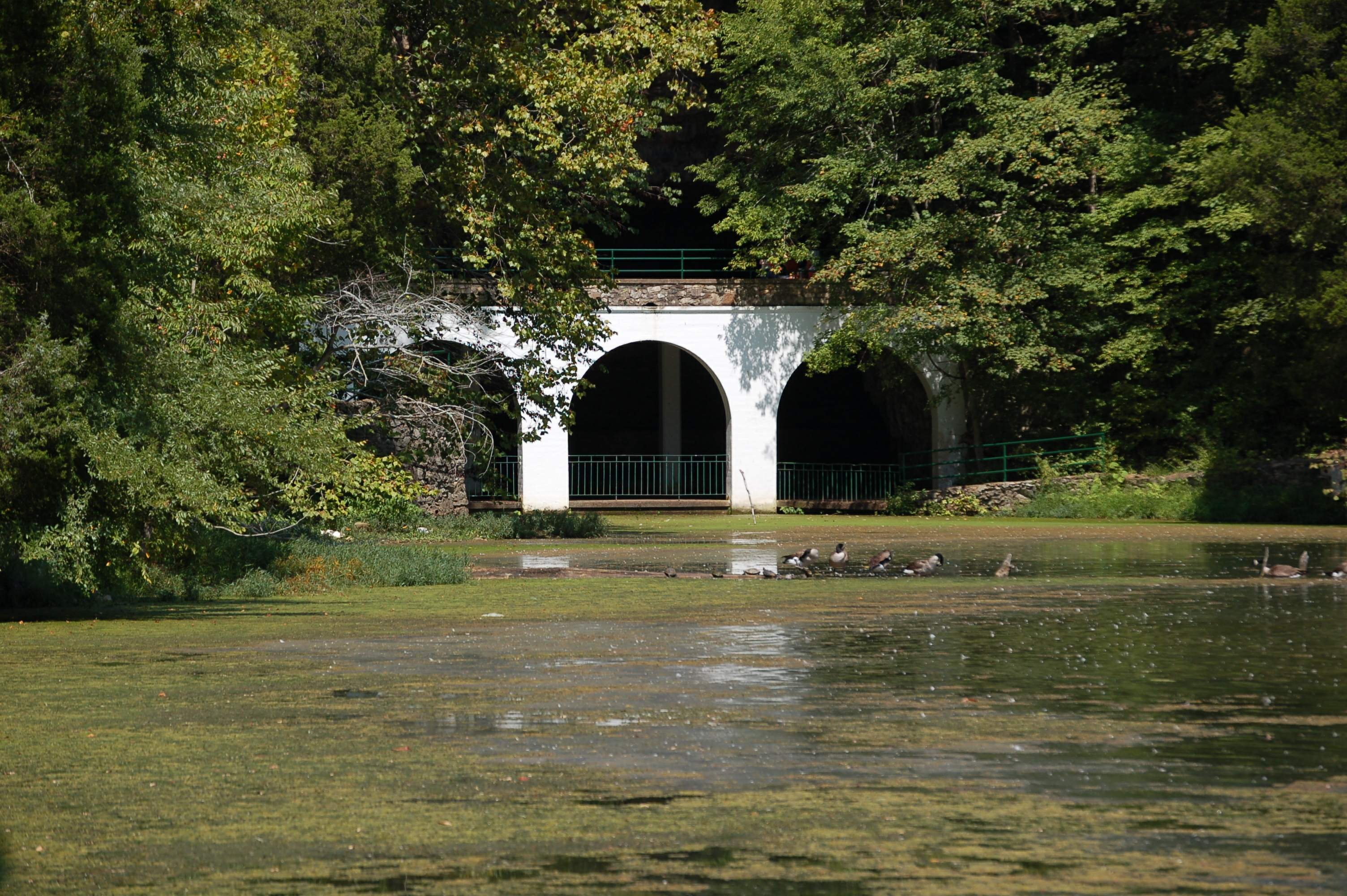 Photo of Dunbar Cave State Park, Tennessee, USA